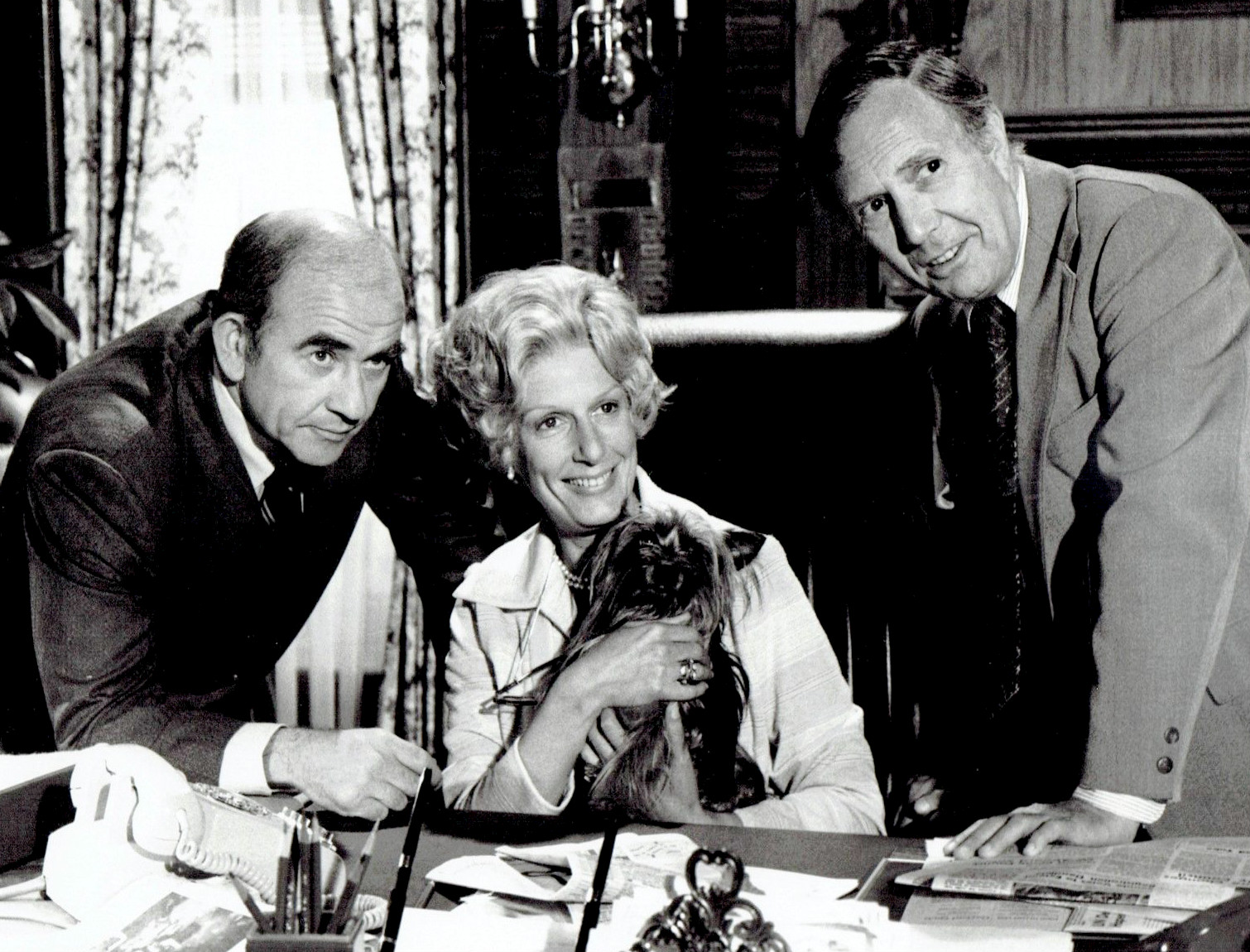 Photo of Ed Asner as Lou Grant, Nancy Marchand as Mrs. Pynchon and Mason Adams as Charlie Hume from the television program Lou Grant.